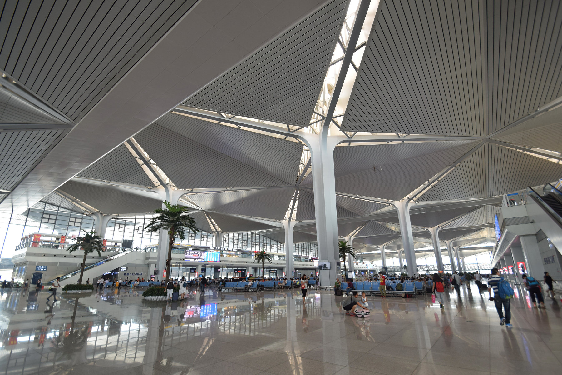 Concourse of Taiyuan Nan (South) Railway Station